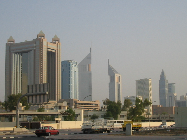 Skyline of Dubai from Al Qooz side taken in 2004